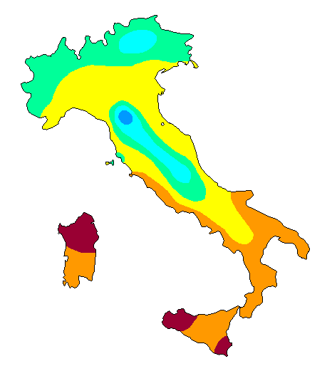 Map of daily sunshine hours in Italy in June